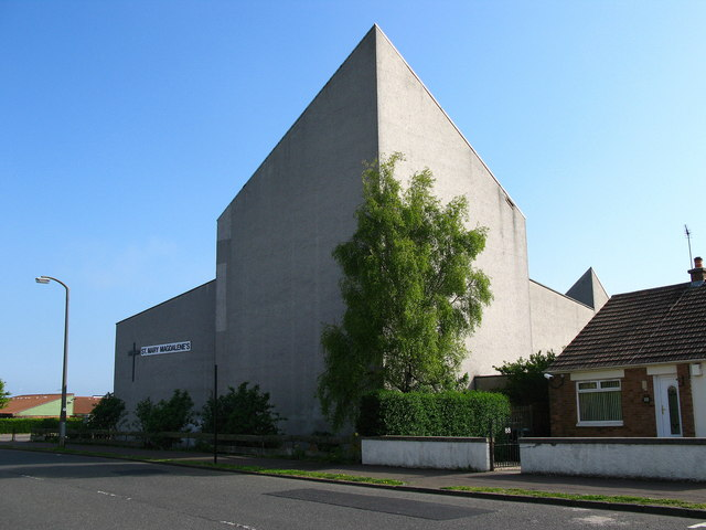 St Mary Magdalenes Roman catholic church in Bingham, Edinburgh